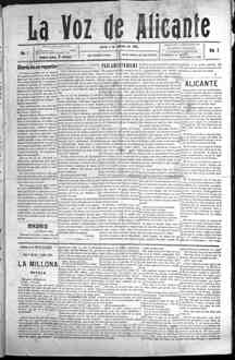 first page of La Voz de Alicante, 1904-02-04 issue